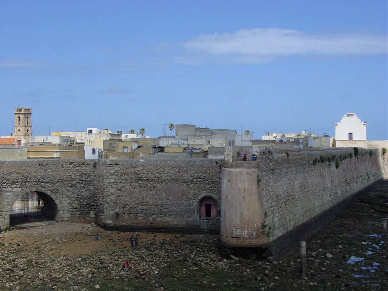 Fortress of El Jadida in Morocco